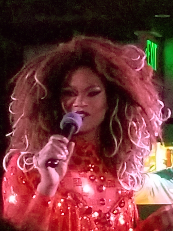 Chi Chi DeVayne performing at The Café in San Francisco, California, United States